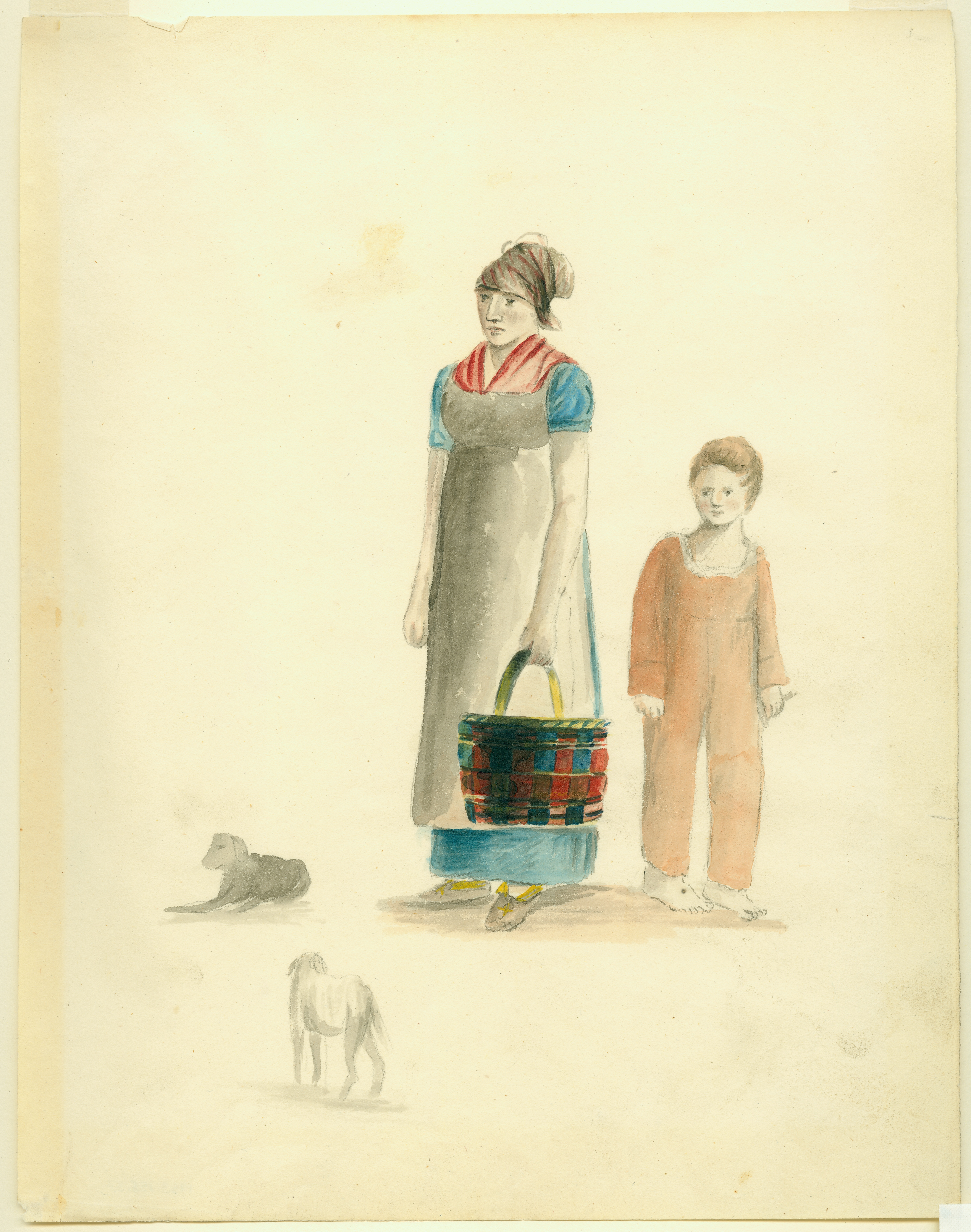 Watercolor painting of a Creole Woman and Boy in St. Louis by Anna Maria von Phul.Title: Painting of Creole Woman and Boy by Anna Maria Von Phul